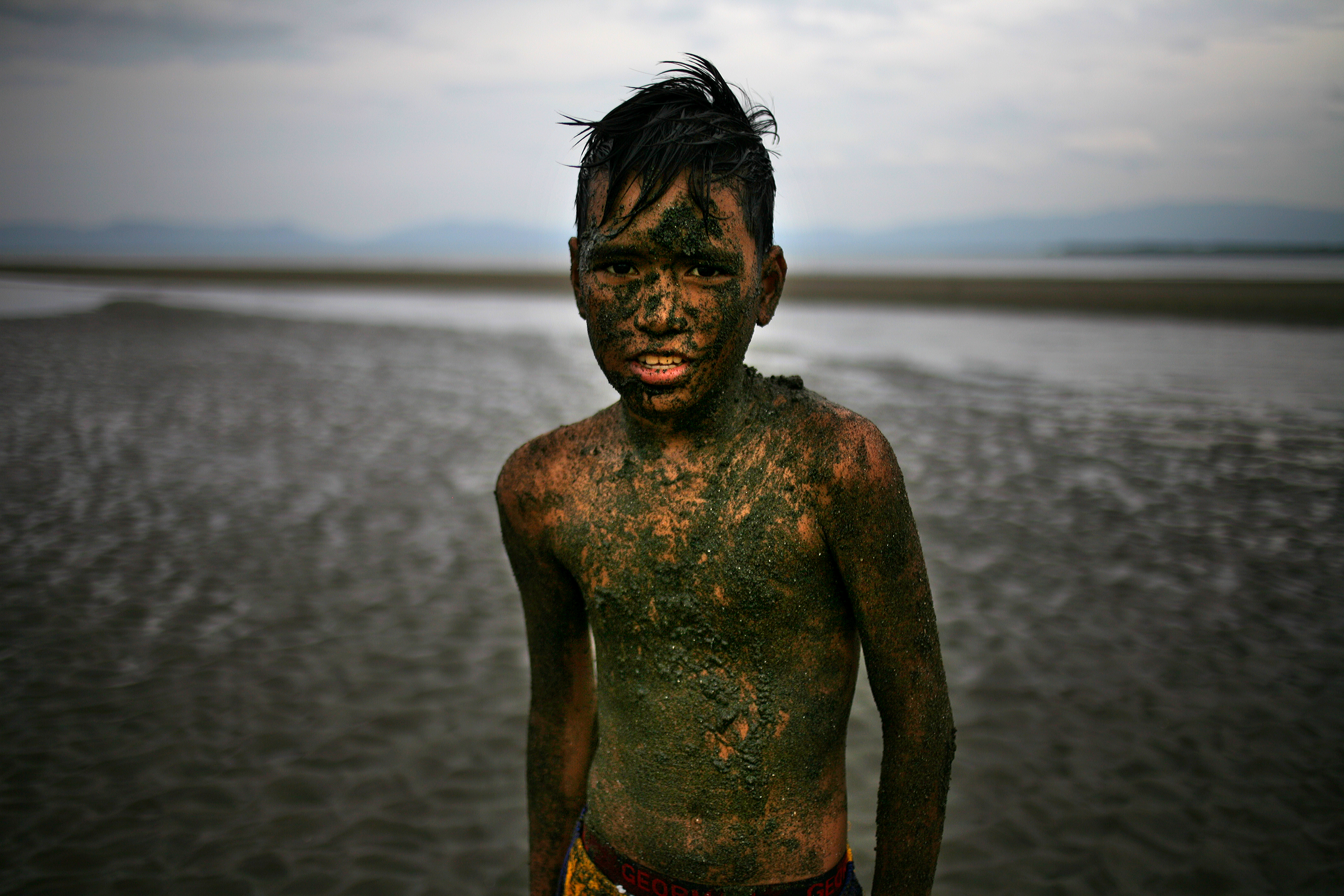 A Filipino boy covered with volcanic sand in Mindanao, Phlippines.